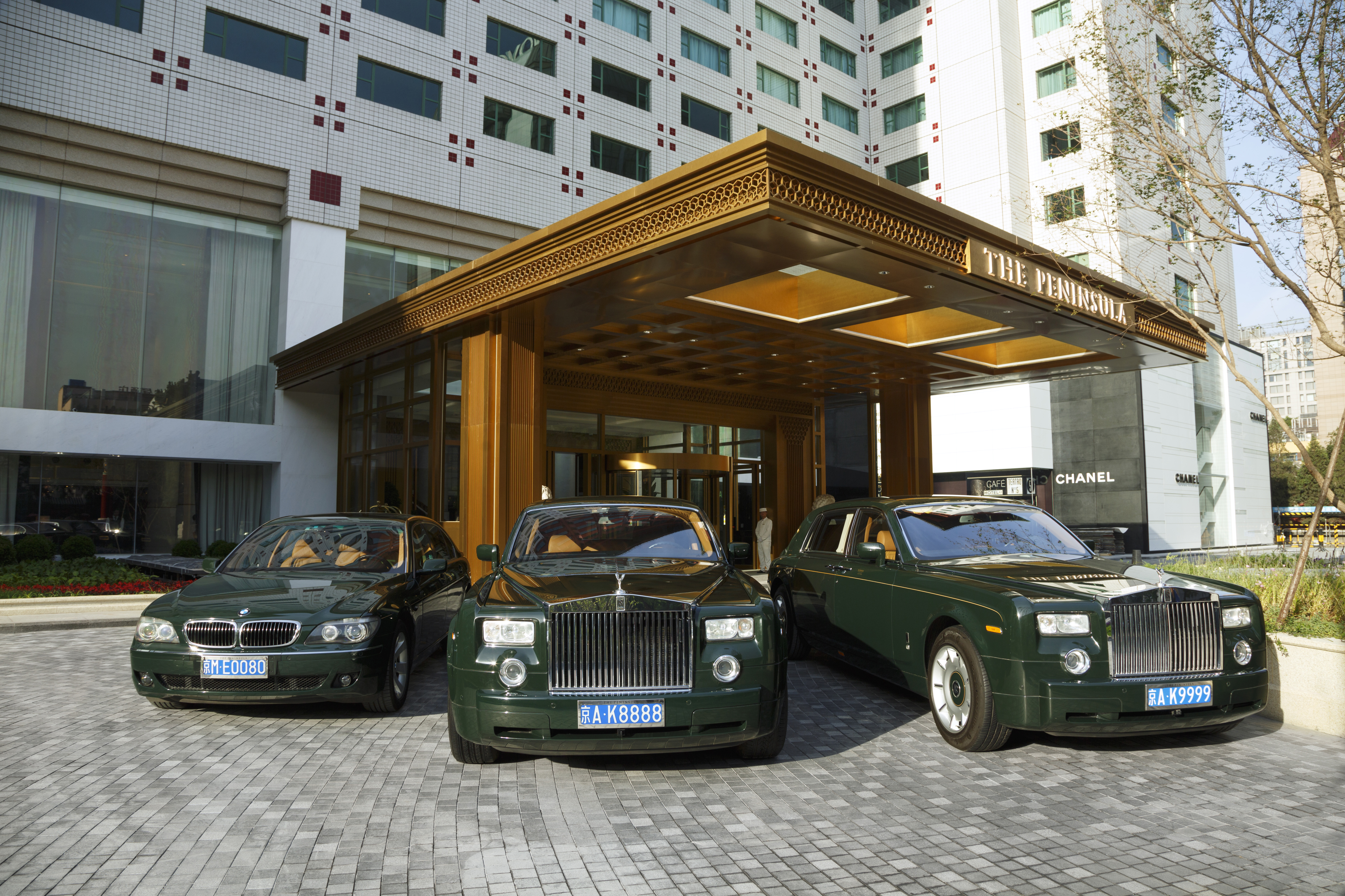 Rolls-Royce at The Peninsula Beijing